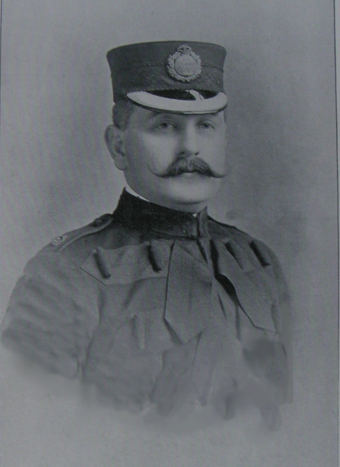 One of several photographs to accompany my article